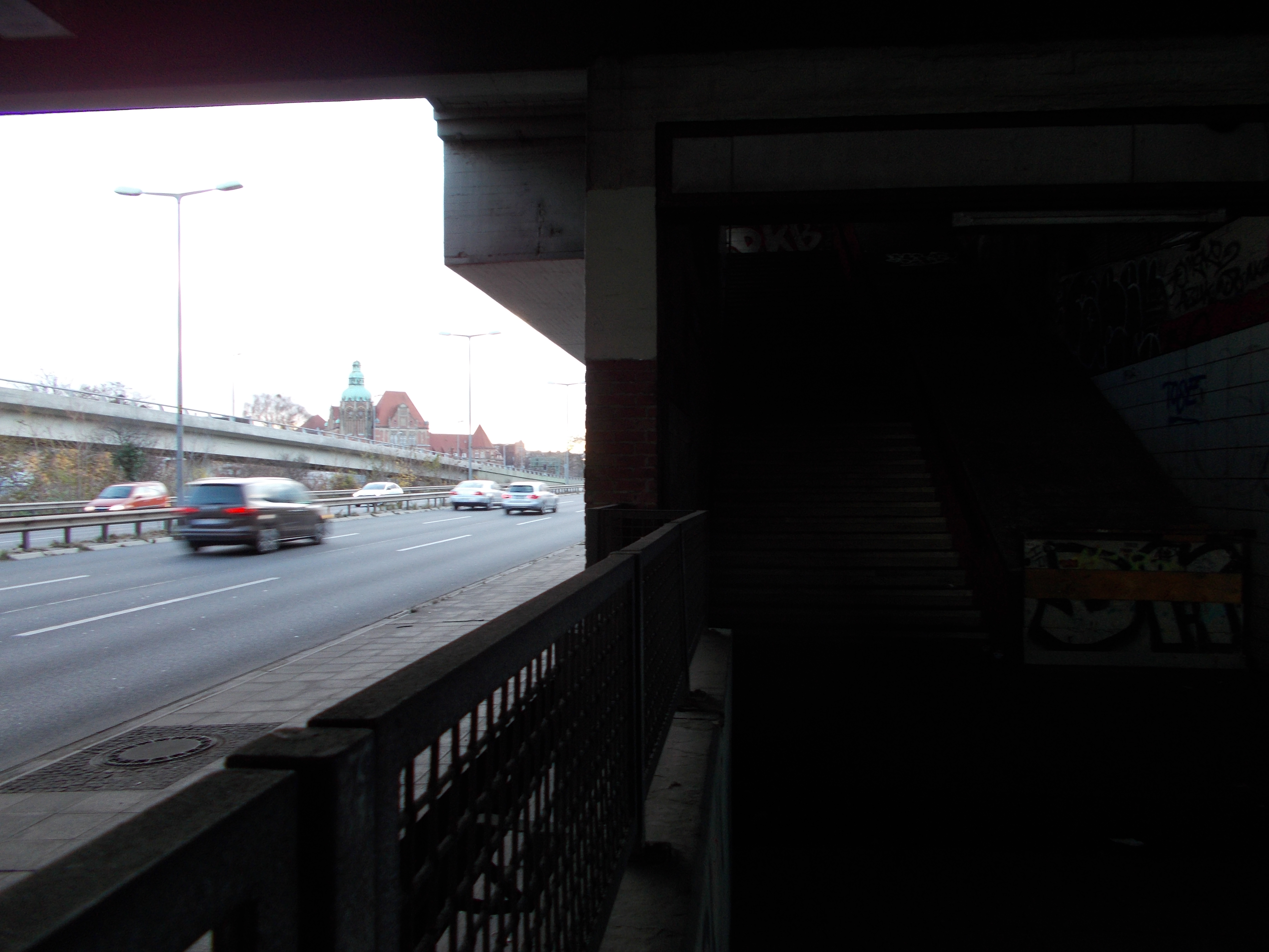 Former bus stop on the highway A 103, Berlin